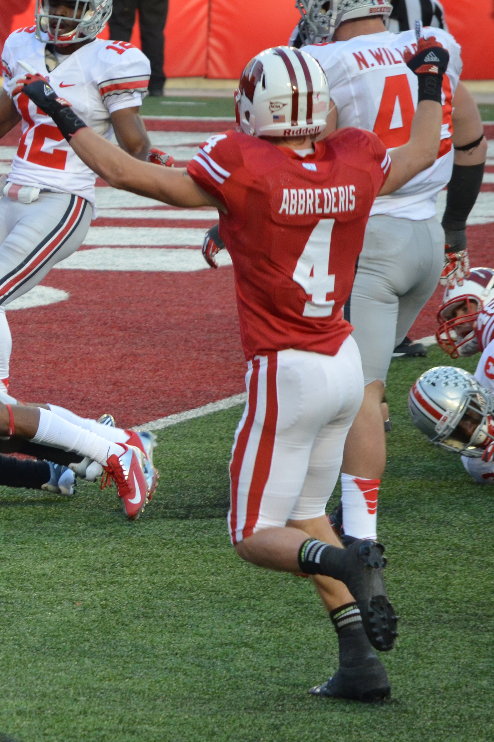 Jared Abbrederis Celebration vs OSU vs OSU 11.17.12